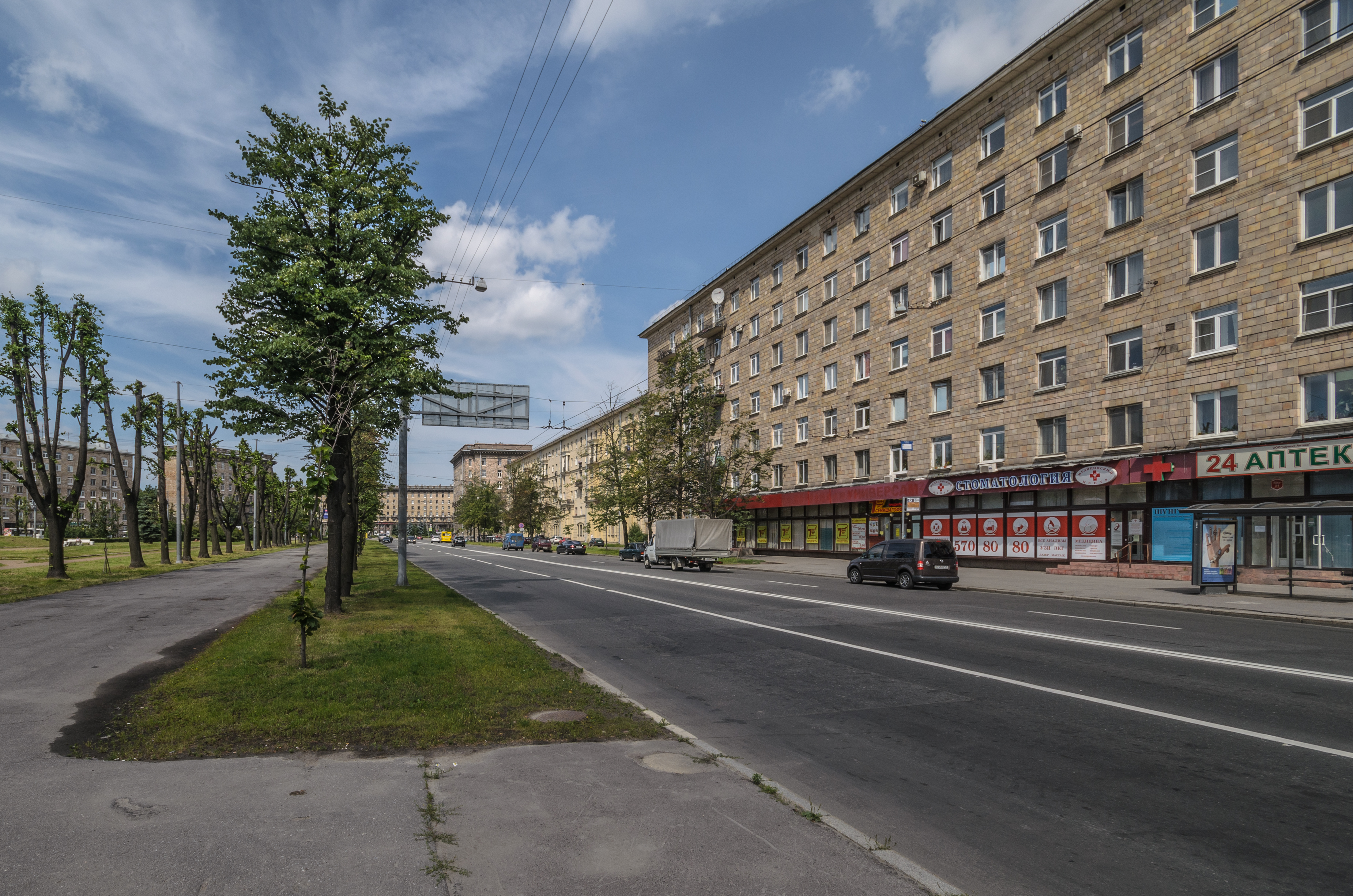 Krasnoputilovskaya Street in Saint Petersburg